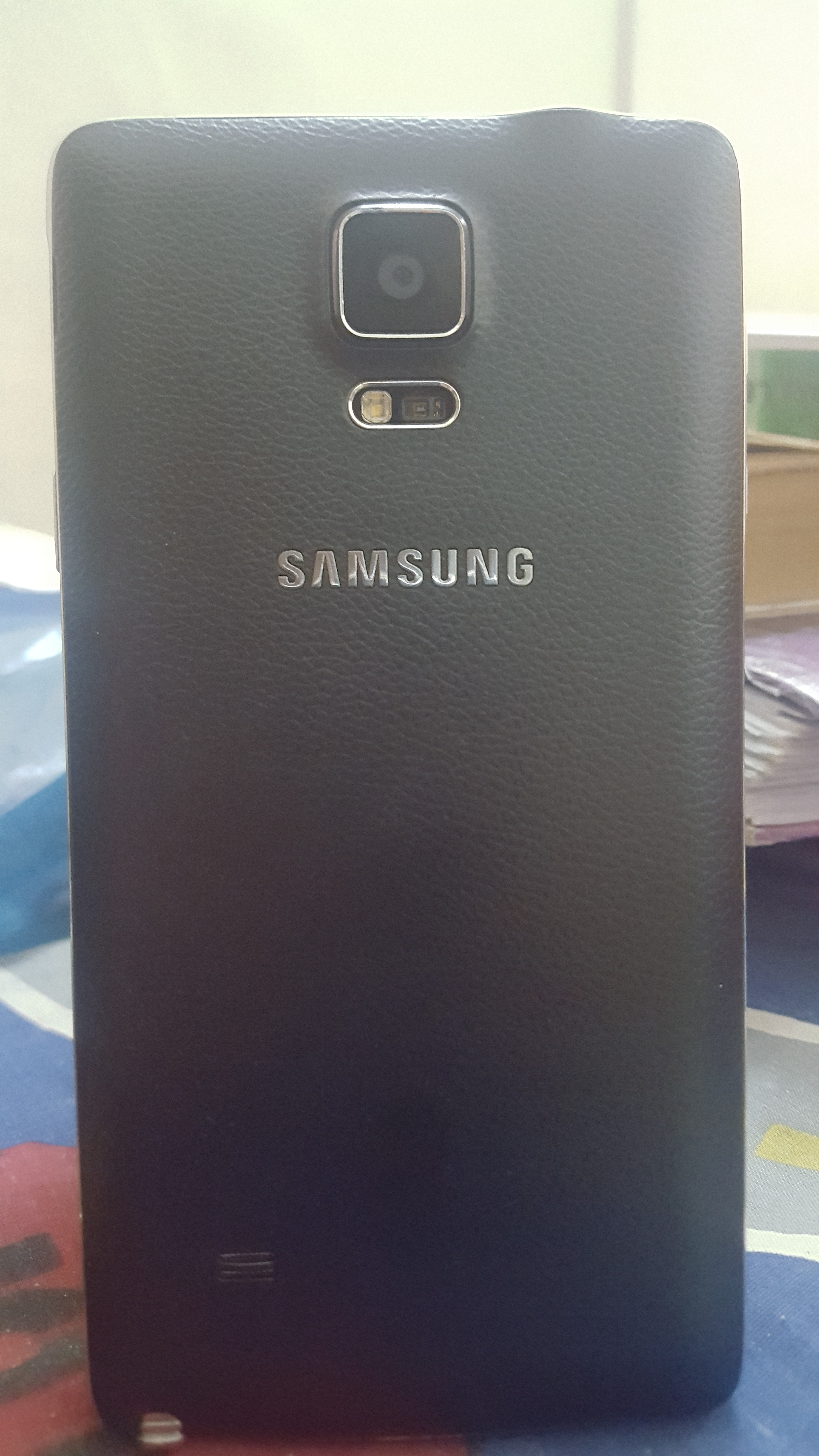 A photo showing the backside of Samsung Galaxy Note 4.